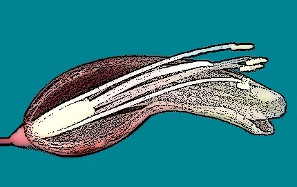 Gasteria armstrongii flower section